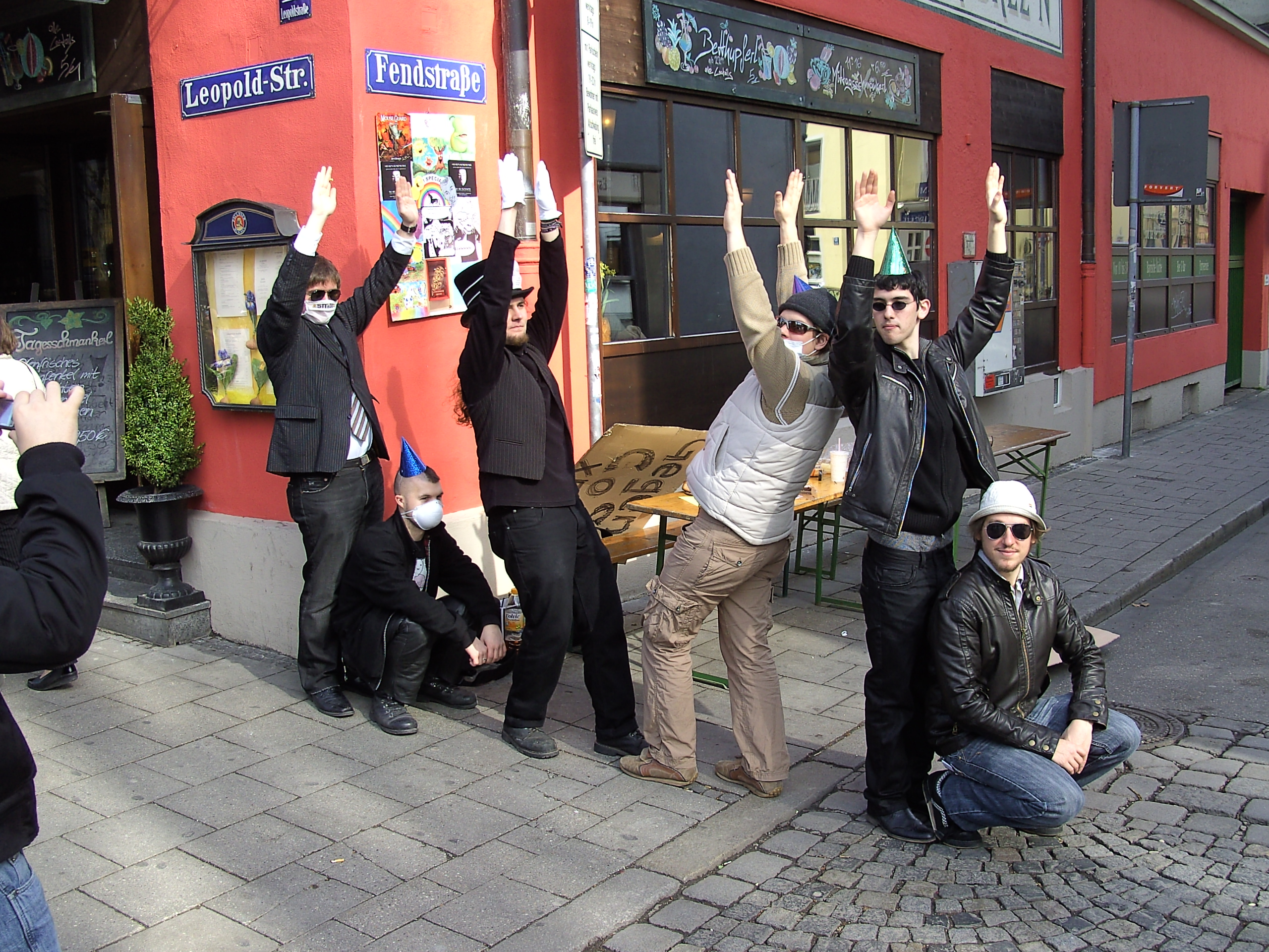 Picture of members of anonymous on the demonstration on march 15 2008 in front of scientology in munich, germany